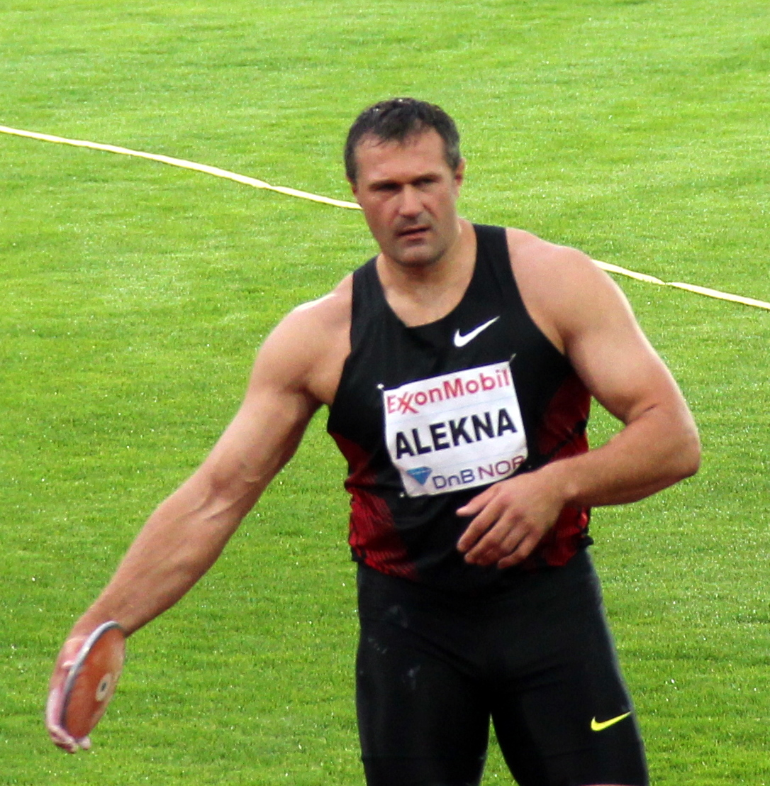 Virgilijus Alekna at the 2011 Bislett Games